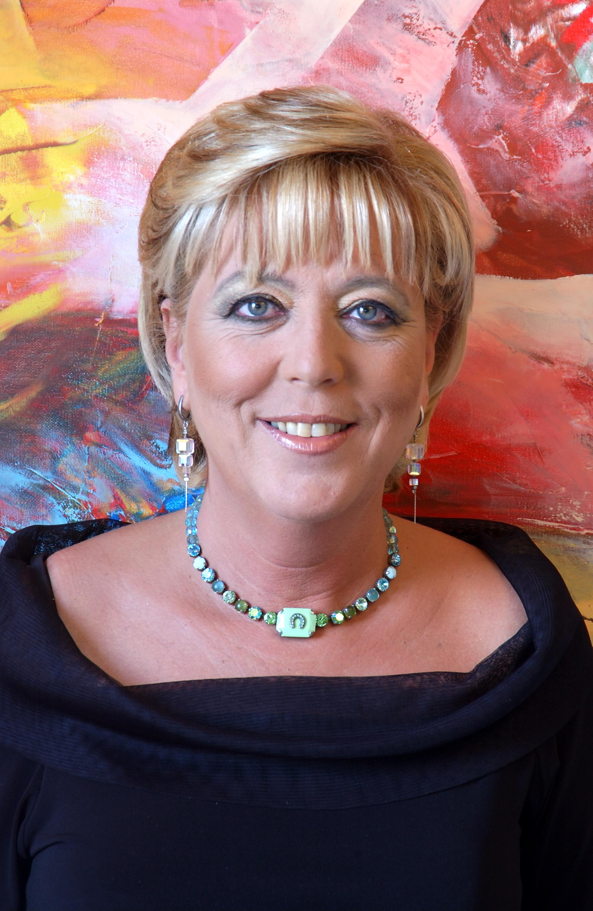 Miriam Feirberg Ikar (or Miriam Fireberg Ikar)